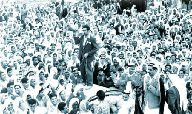 تجمع هيئة الاتحاد الوطني